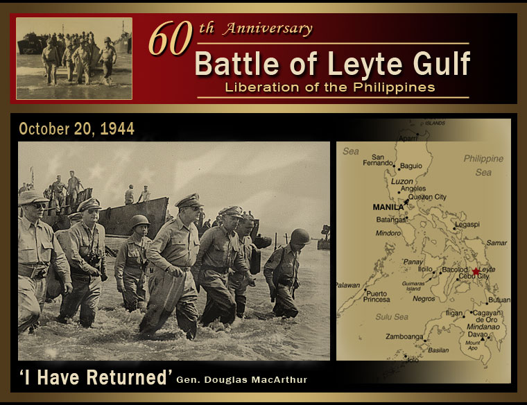 When Americans stormed ashore at Leyte, it fullfilled a promise made by Gen. Douglas MacArthur made in the dark days following the fall of the Philippines to the Japanese in 1942. NOTE: This picture was staged by MacArthur during a re-take. He was upset when he had to walk in the sea water to the beach. But when the American public reacted positively to the image, he asked to re-take the scene. Then every time he landed on a beach, his staff made sure that the news photograhers took the photos of MacArthur walking through the sea water and to the beach.